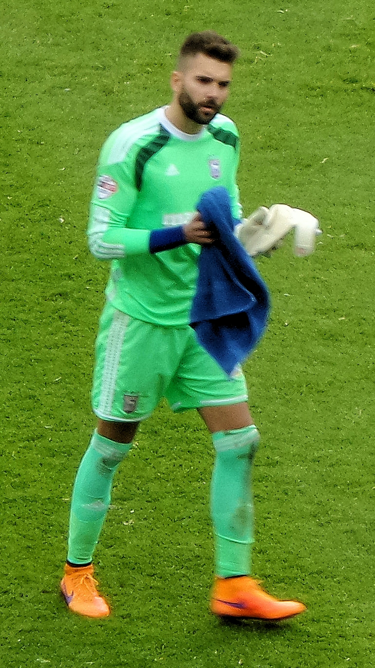 Bartosz Bialkowski playing for Ipswich Town against Norwich City on 9 May 2015.